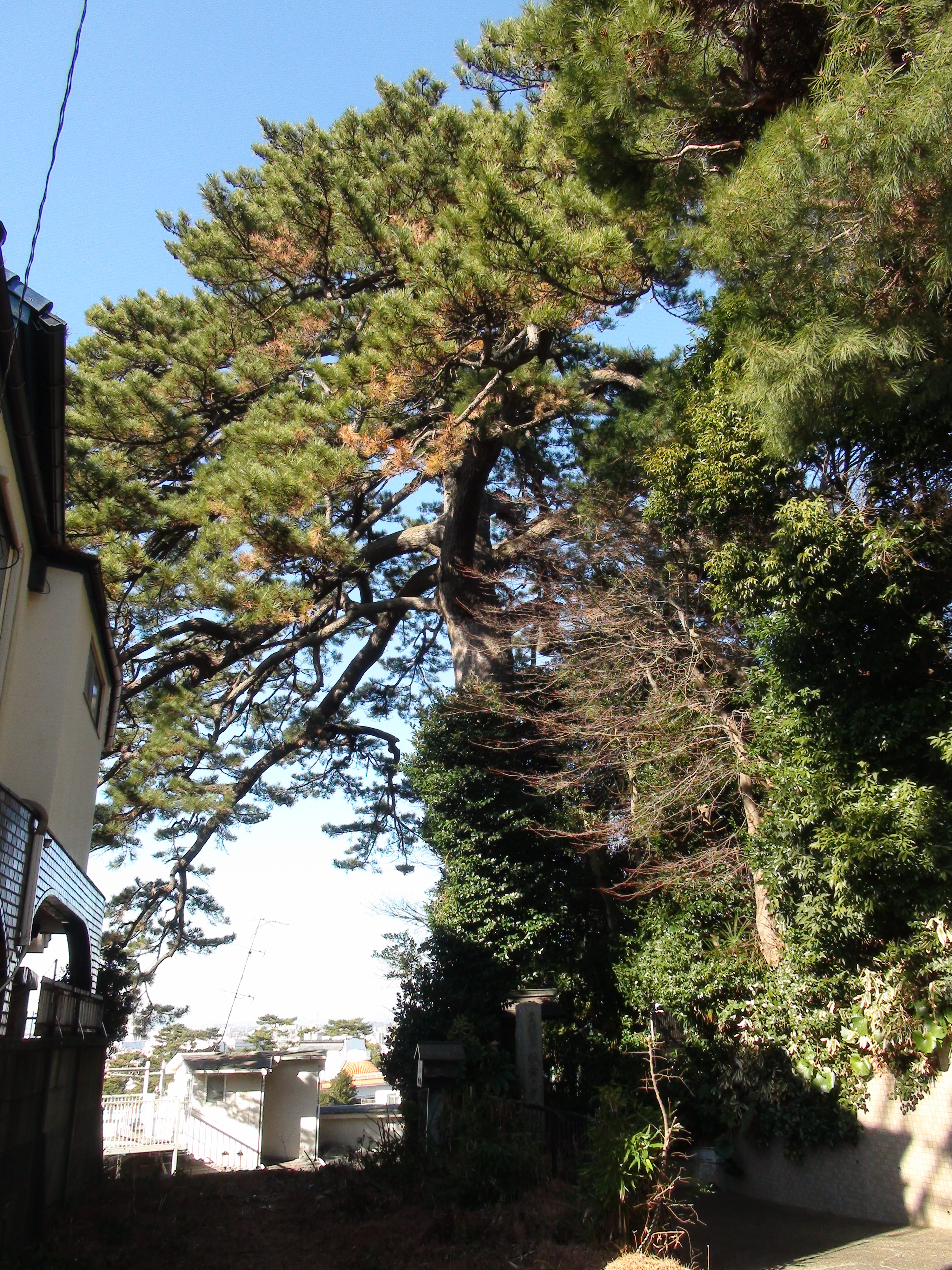 Akiba no Kuromatsu (Black Pine of Akiba) in Ota Ward, Tokyo, Japan